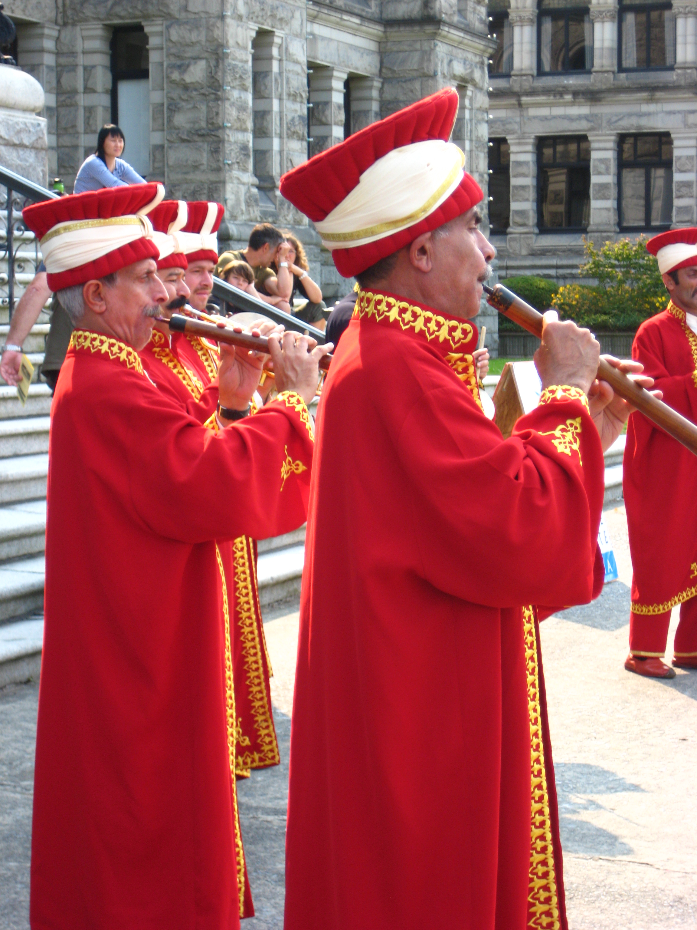 Ottoman Military Band in Victoria, Canada.